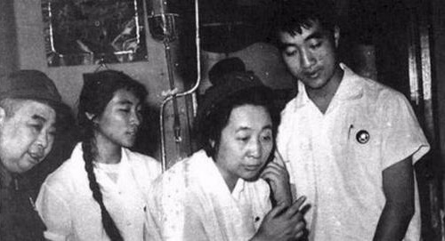 Lin Liguo (right) with his mother Ye Qun (center) and sister Lin Liheng (second from left)